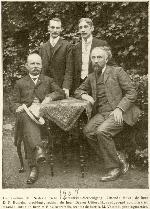 Board of the Dutch Esperantists' Society "La Estonto Estas Nia" (LEEN) in 1907.